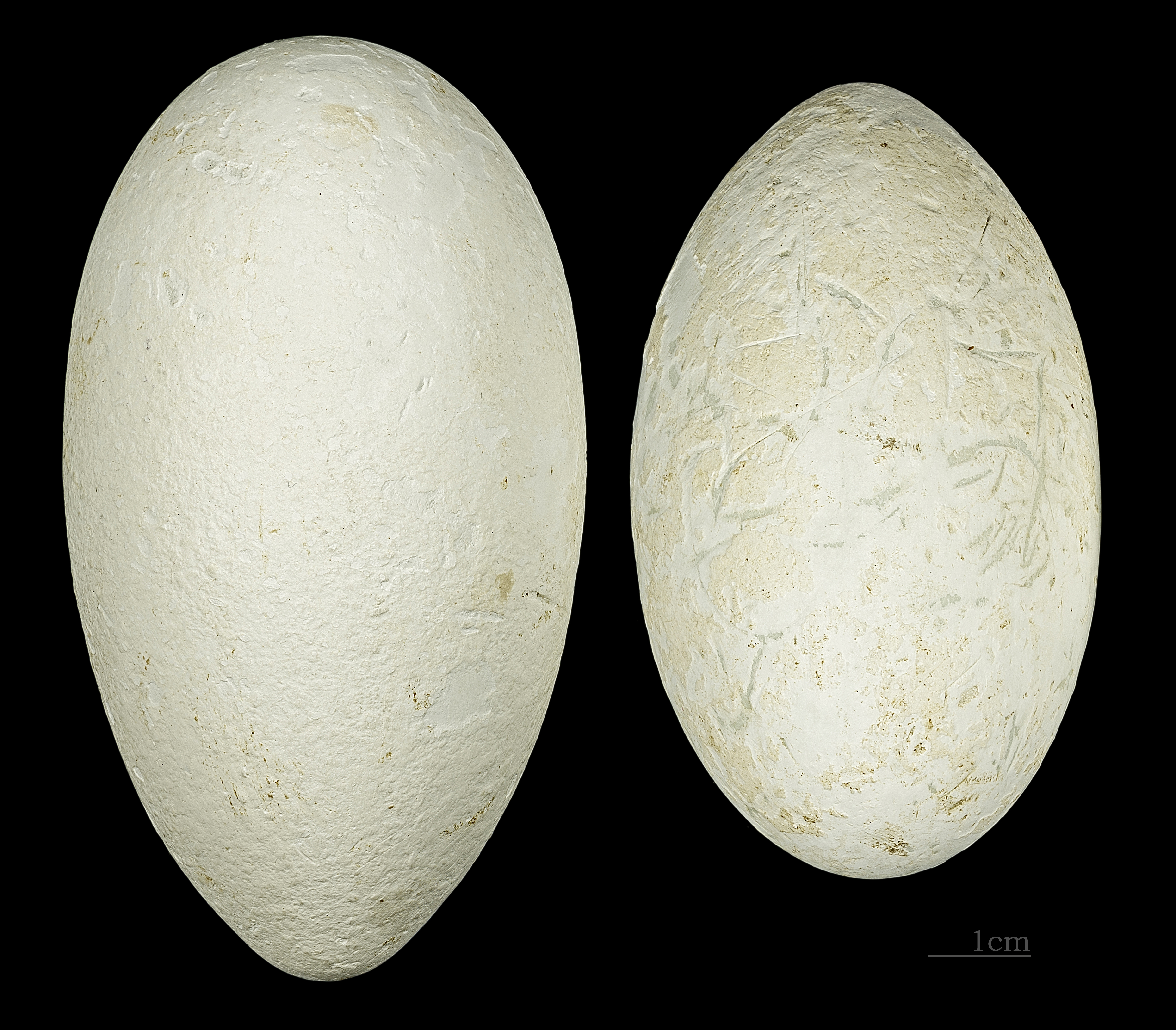 Egg of Lesser Flamingo Collection of René de Naurois / Jacques Perrin de Brichambaut.